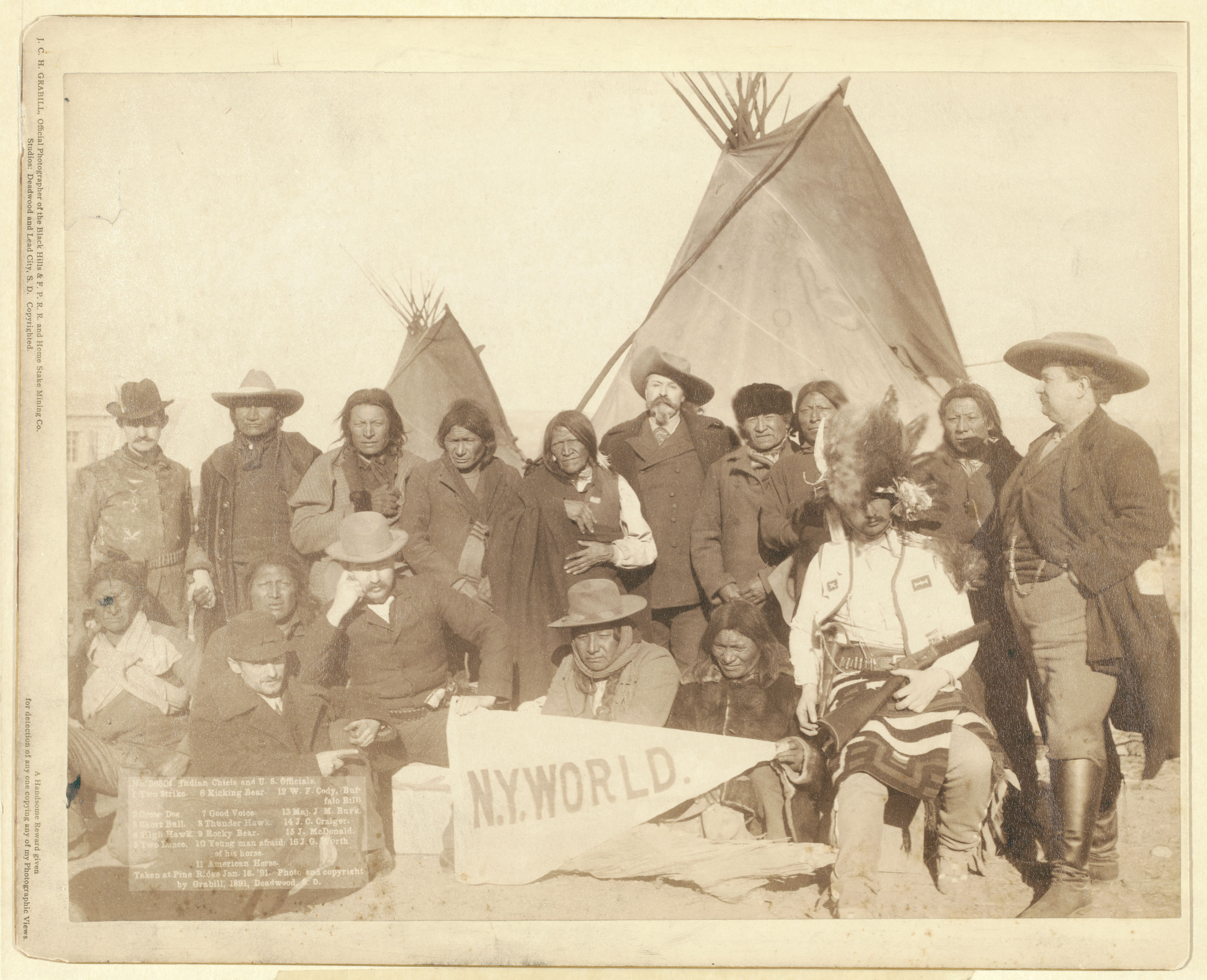 Original title Indian chiefs and U.S. officials. 1. Two Strike. 2. Crow Dog. 3. Short Bull. 4. High Hawk. 5. Two Lance. 6. Kicking Bear. 7. Good Voice. 8. Thunder Hawk. 9. Rocky Bear. 10. Young Man Afraid of His Horse. 11. American Horse. 12. W.F. Cody (Buffalo Bill). 13. Maj. J.M. Burk. 14. J.C. Craiger. 15. J. McDonald. 16. J.G. Worth. Taken at Pine Ridge, Jan. 16 '91